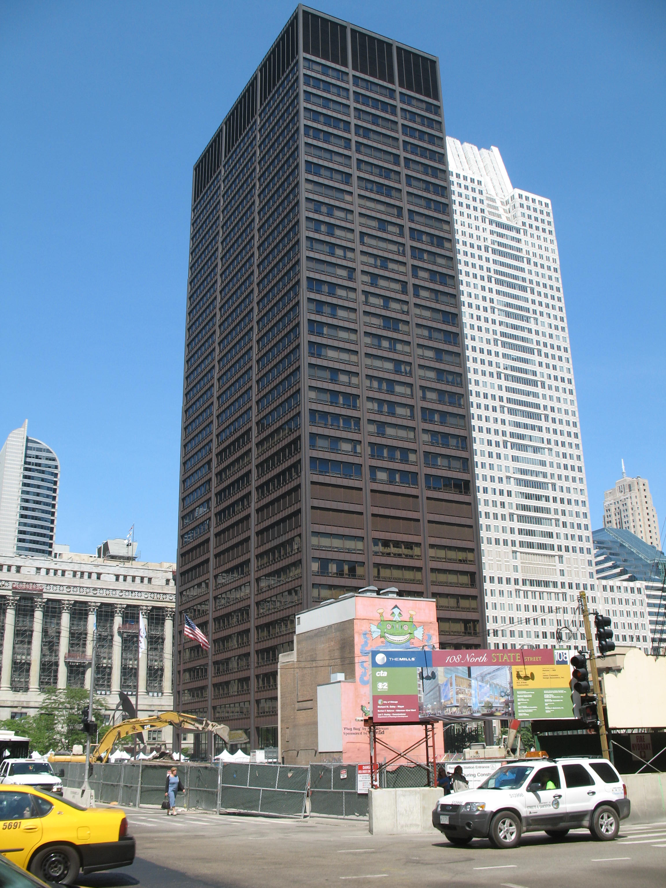 en:108 North State Street